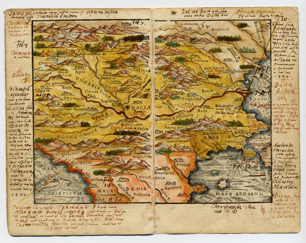 Map of 16th Century South Central Europe